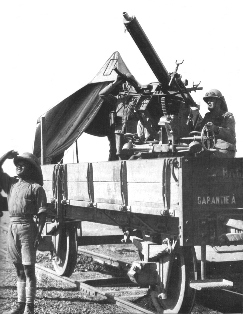 2 pounder Vickers anti-aircraft "pom-pom" and crew, Mesopotamia, 1918. See also : Image:VickersQF2pdrPomPomAAgunMesopotamia1918.jpeg Image:2pdrVickersPomPomRailwayMesopotamiaWWI.jpeg